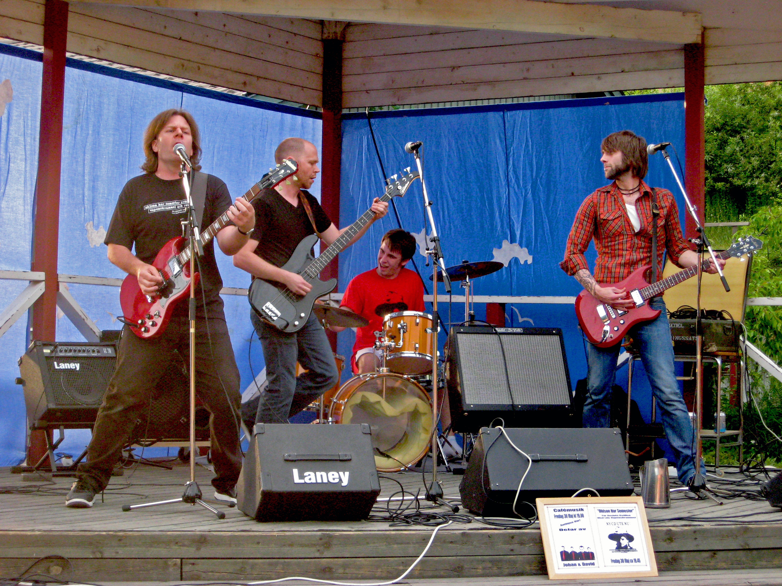 Ohlson har semester production playing in Hagalundsparken, May 30, 2008.